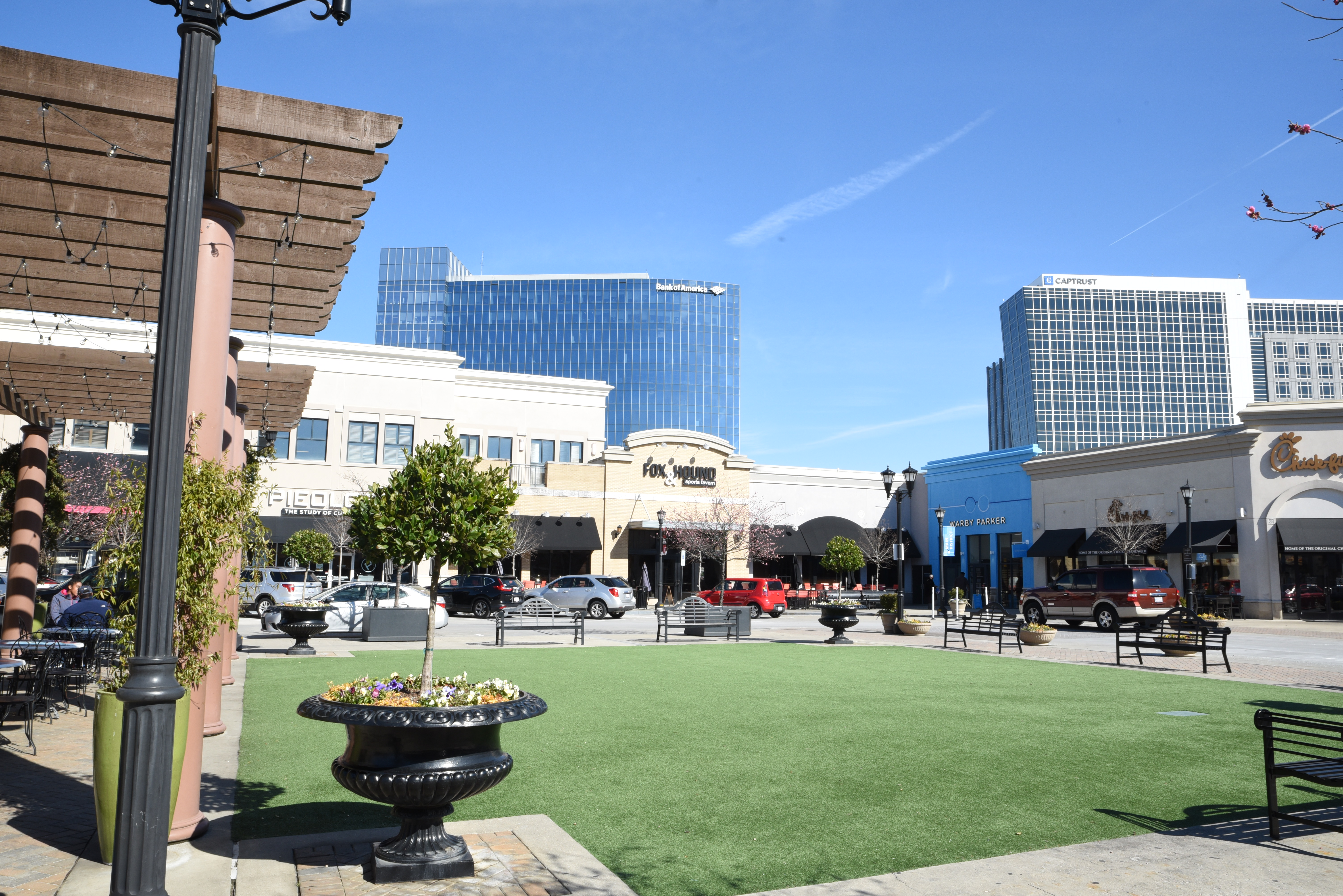 Office towers overlook North Hills shopping center in midtown Raleigh.